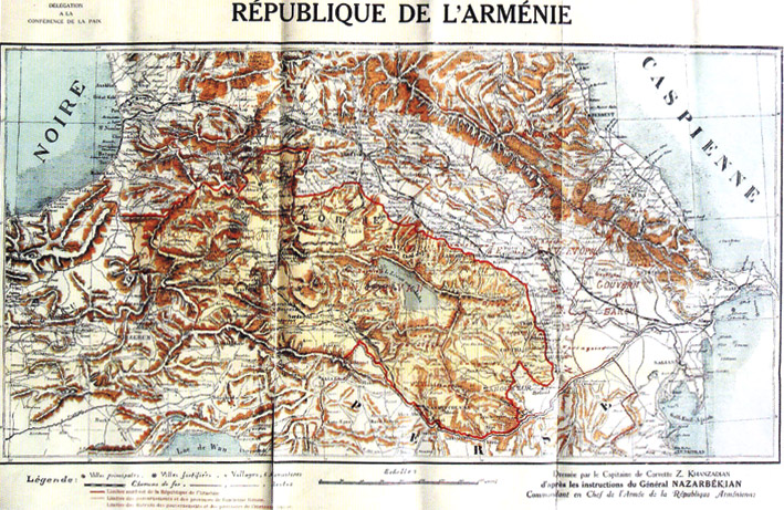 Map of Armenia, Paris Peace Conference, 1919